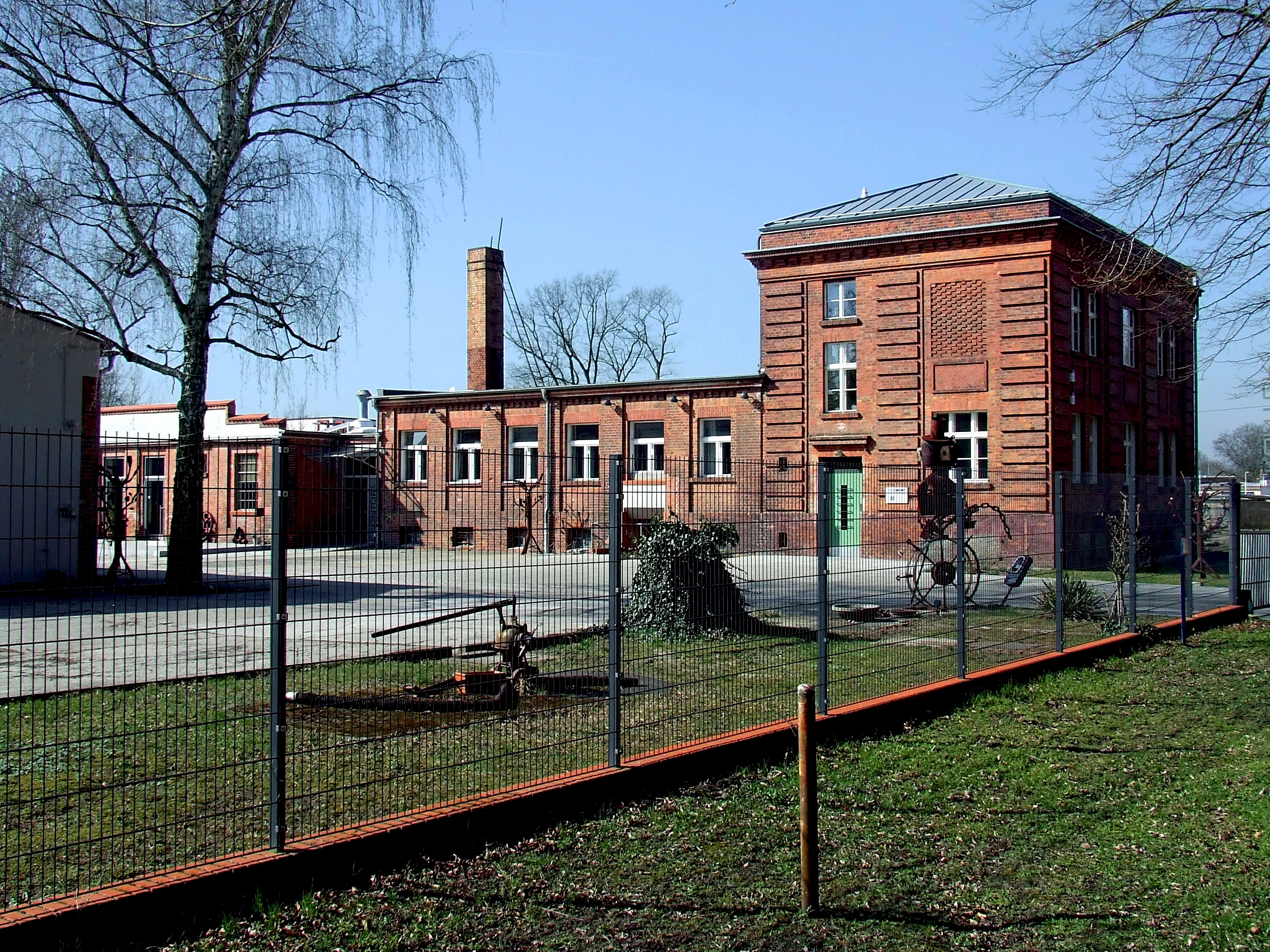 Former weaving mill Wilhelm Stoffel, Parzellenstraße 47 in Cottbus-Spremberger Vorstadt. It is a cultural heritage monument.